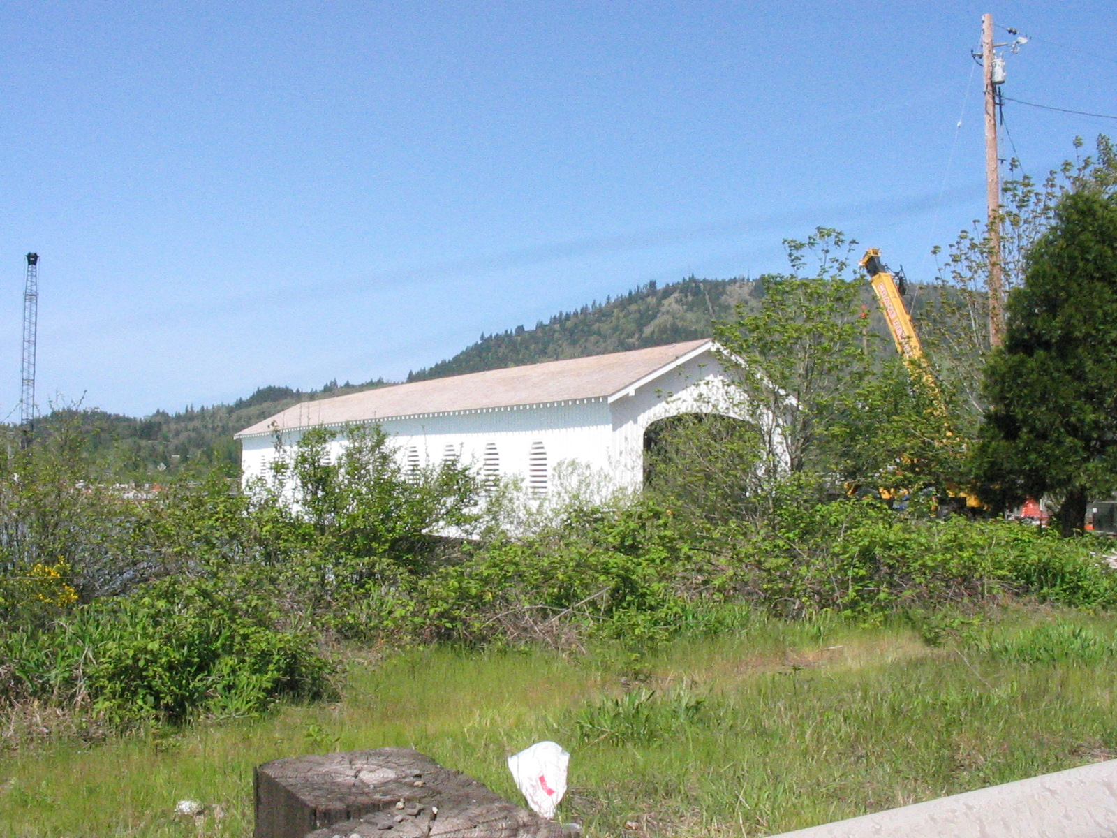 The Lowell Covered Bridge near Lowell, Oregon.